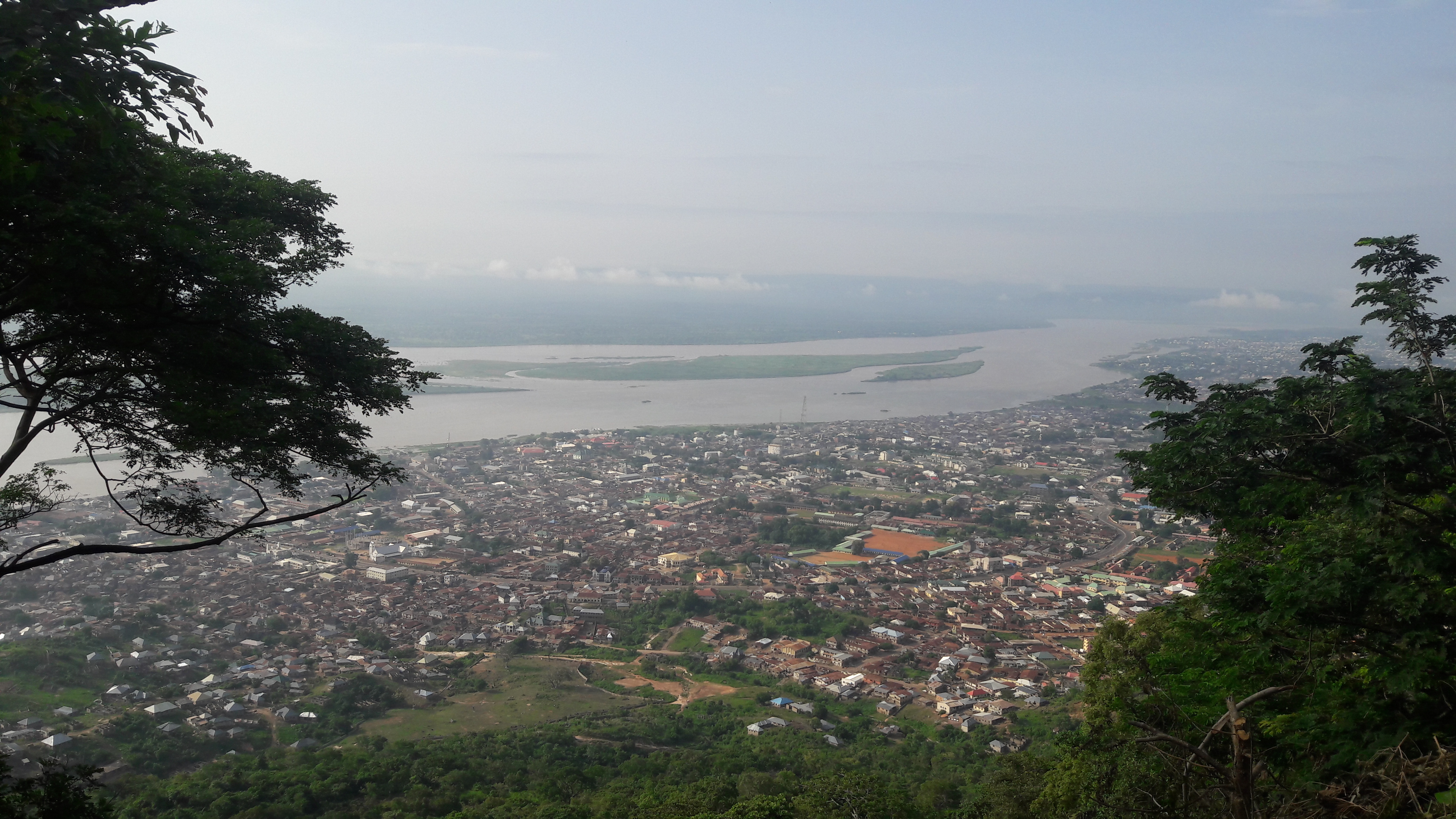 Sir Lord Frederick Lugard, the British administrator who amalgamated the Northern and Southern Protectorates in 1914, developed the spot and later converted it to his prime relaxation centre. It is about 1500 feets above sea level and the mountaintop offered him a good view of the great rivers Niger and Benue and their confluence